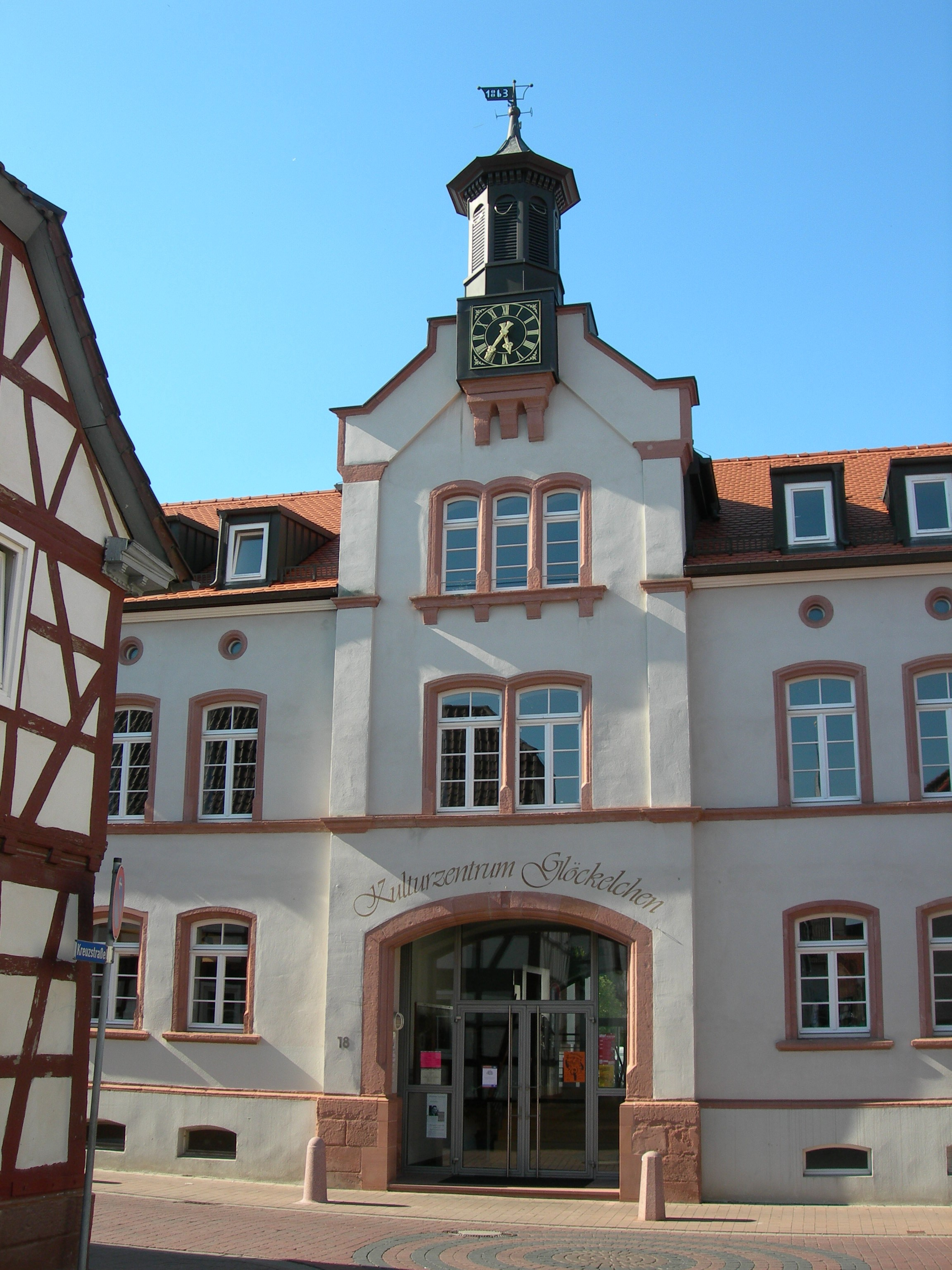 Groß-Zimmern (Hesse), cultural centre Glöckelchen